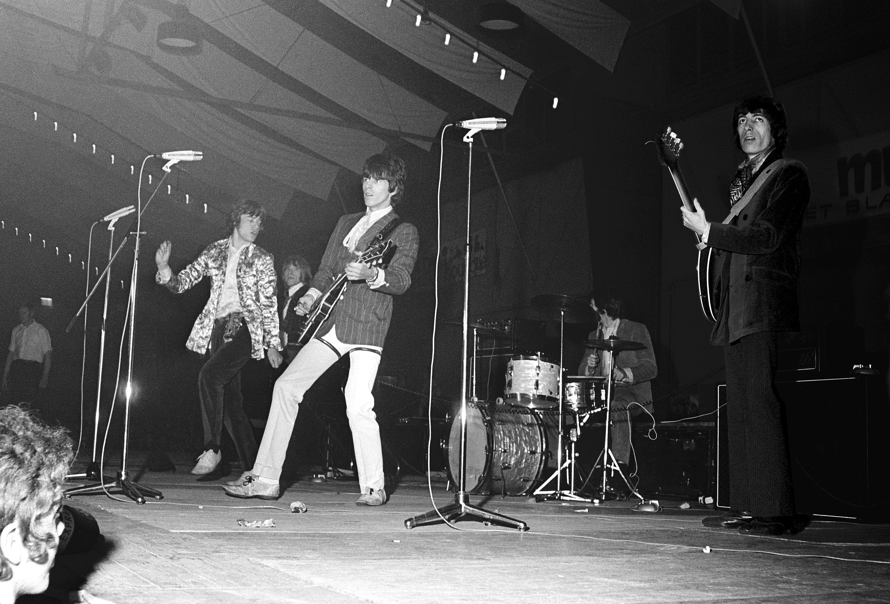 Rolling Stones in concert, Houtrusthallen in The Hague (NL), 15 April 1967. This is a cropped and retouched (removed scratches and spots, edited brightness, sharpened) version of the image from the Nationaal Archief.